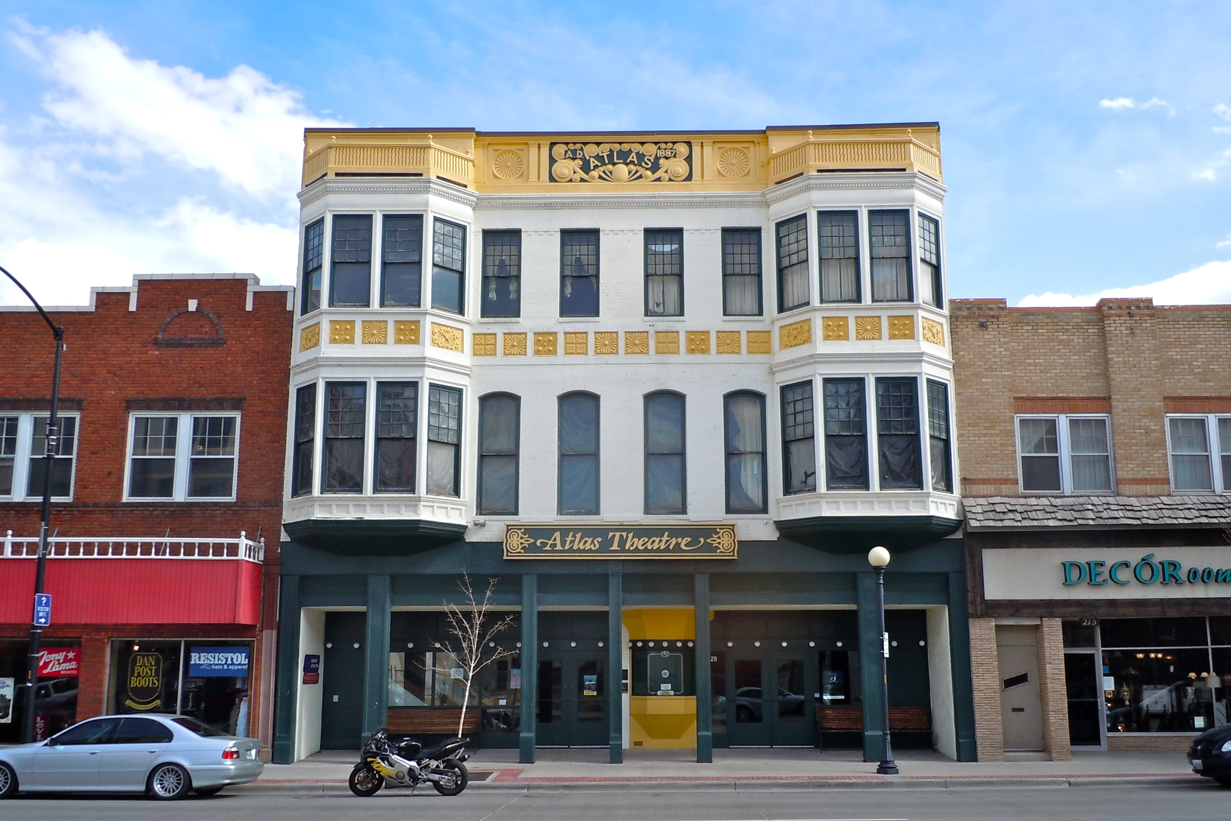 Atlas Theatre on the NRHP since April 3, 1973. At 213 W. 16th St. (Lincoln Highway), Cheyenne, Wyoming